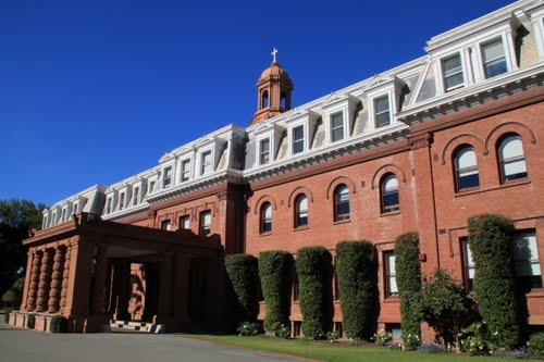 Sacred Heart Preparatory, Atherton, California